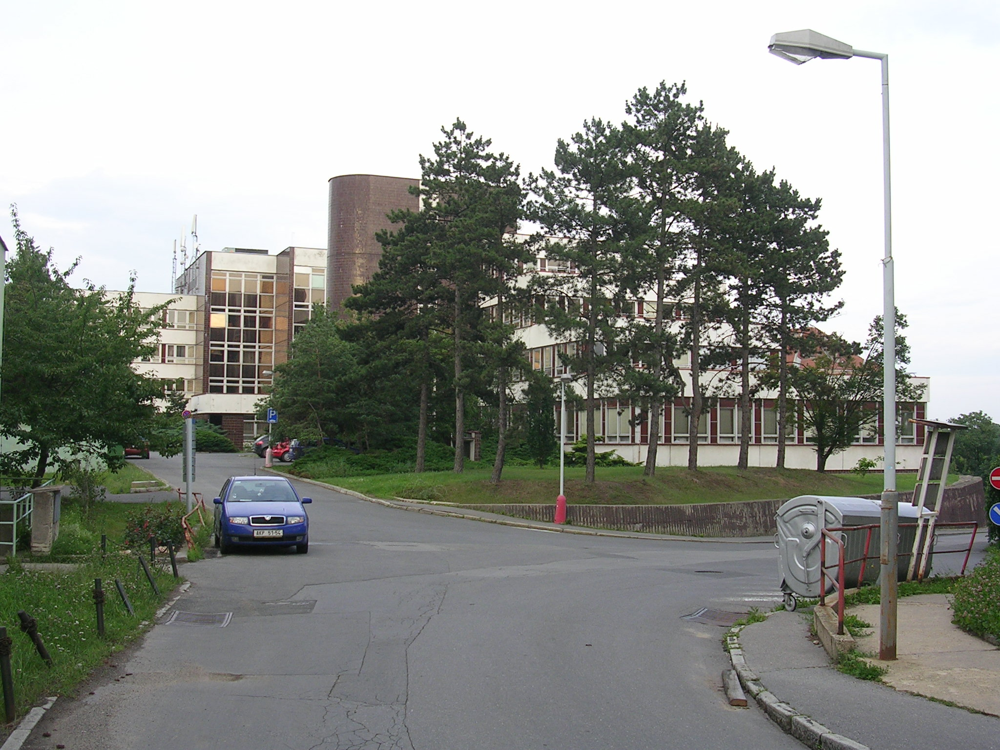 Libeň, Prague, the Czech Republic. Bulovka Hospital.